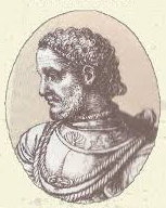 Aldobrandino III d'Este